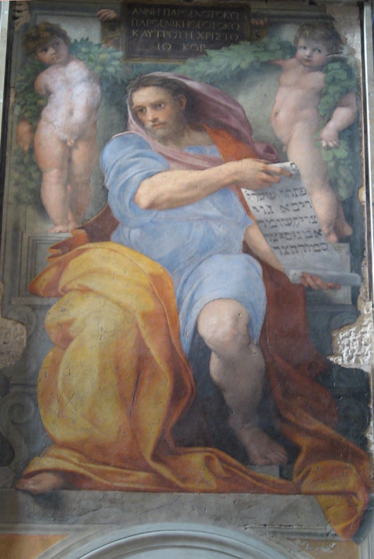 fresco of Prophet Isaiah, by Raphael, church of Sant'Agostino in Rome